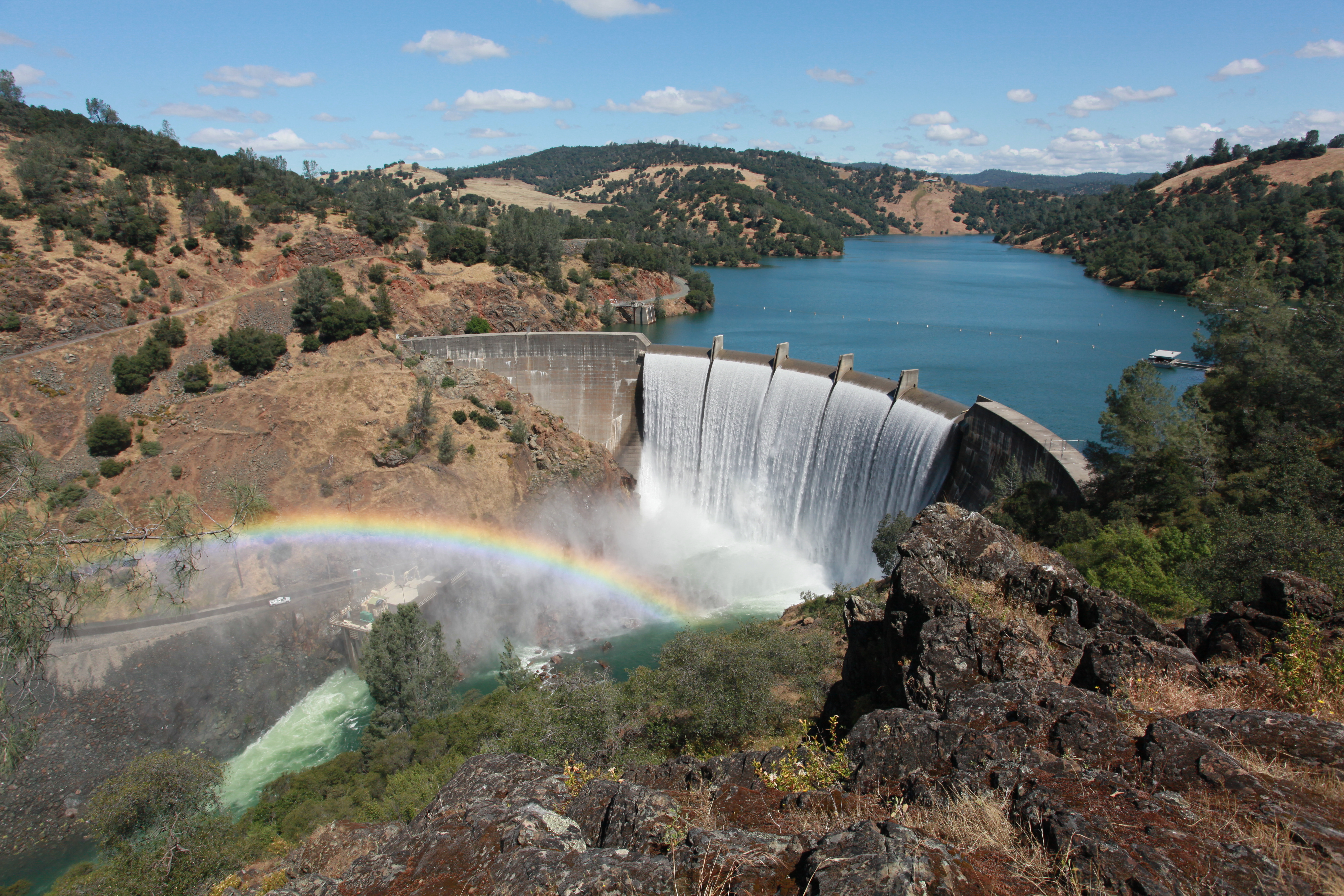 Englebright Dam, shown here June 10, 2010, is located between Grass Valley and Marysville, Calif., in Nevada and Yuba counties. Completed by the U.S. Army Corps of Engineers Sacramento District in 1941, the dam was authorized by Congress for the storage of hydraulic gold mining debris on the Yuba River. The concrete arch dam spans 1,142 feet across and is 260 feet high. Englebright Lake is 9 miles long with a surface area of 815 acres, an elevation of 527 feet and 24 miles of shoreline. The lake and dam are managed by the Sacramento District. (U.S. Army Photo/ Michael J. Nevins)